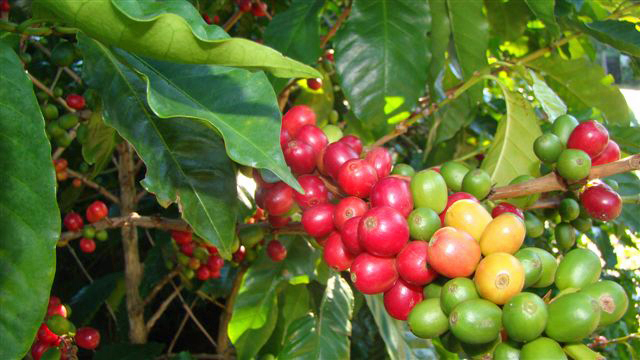 Coffee ripens on a bush. Photo credit Edwin Mas.